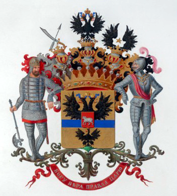 Coat of arms of the Countess of Baranova.